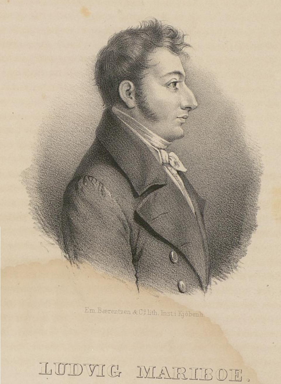 Lithograph of Ludvig Mariboe (1781-1841), by "Em. Bærentzen & Co. Lith. Inst. i Kiøbenhavn"